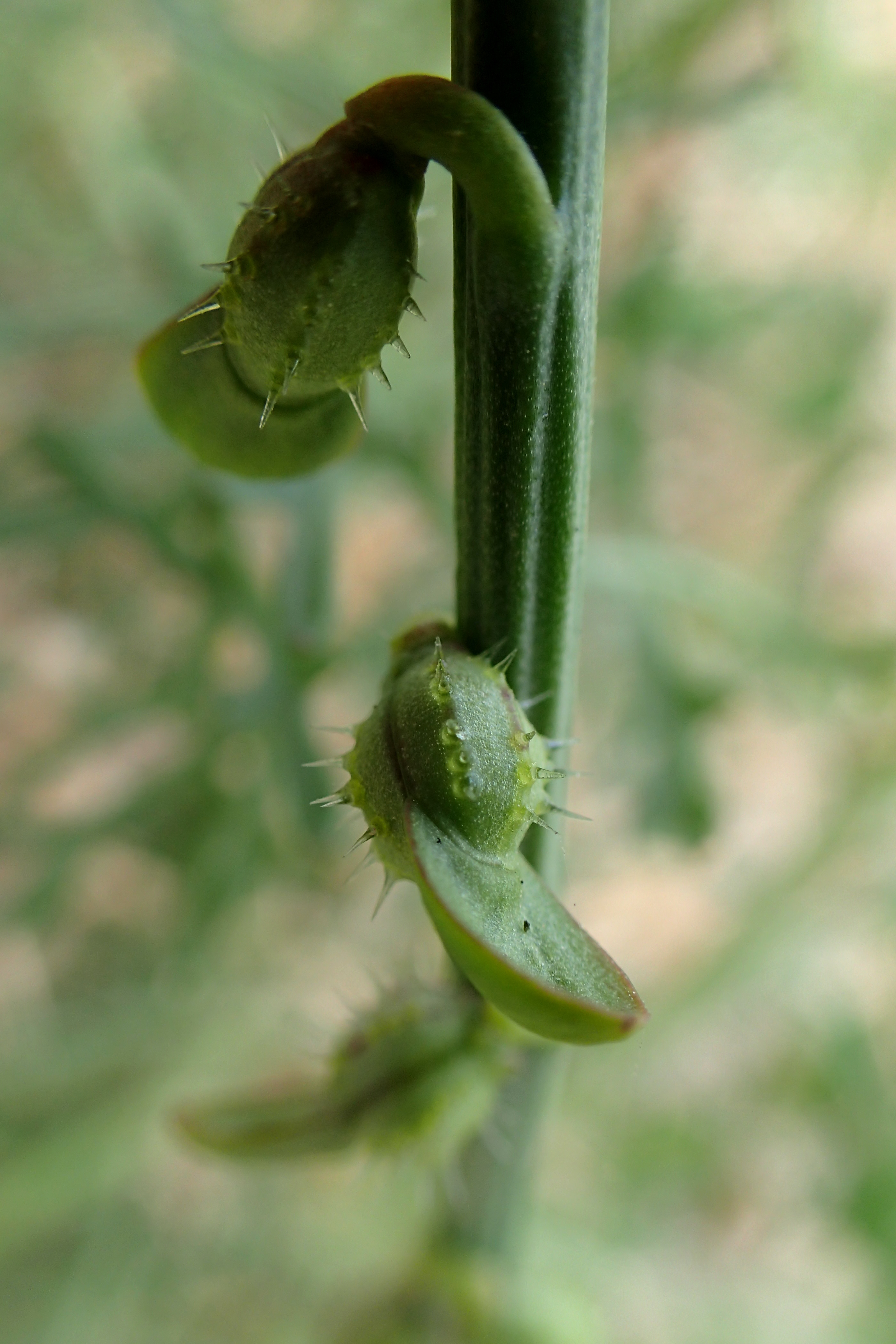 Carrichtera annua near mouth of Xeros Potamos, Cyprus